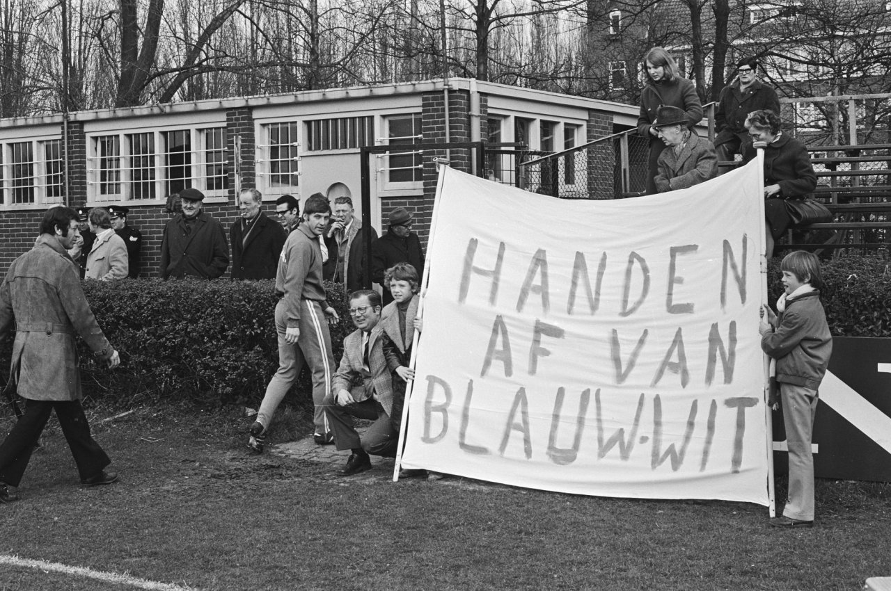 protest banner against the merger of Amsterdam soccer club Blauw-Wit with local rivals DWS, 1971. Both merged to become FC Amsterdam in 1972.